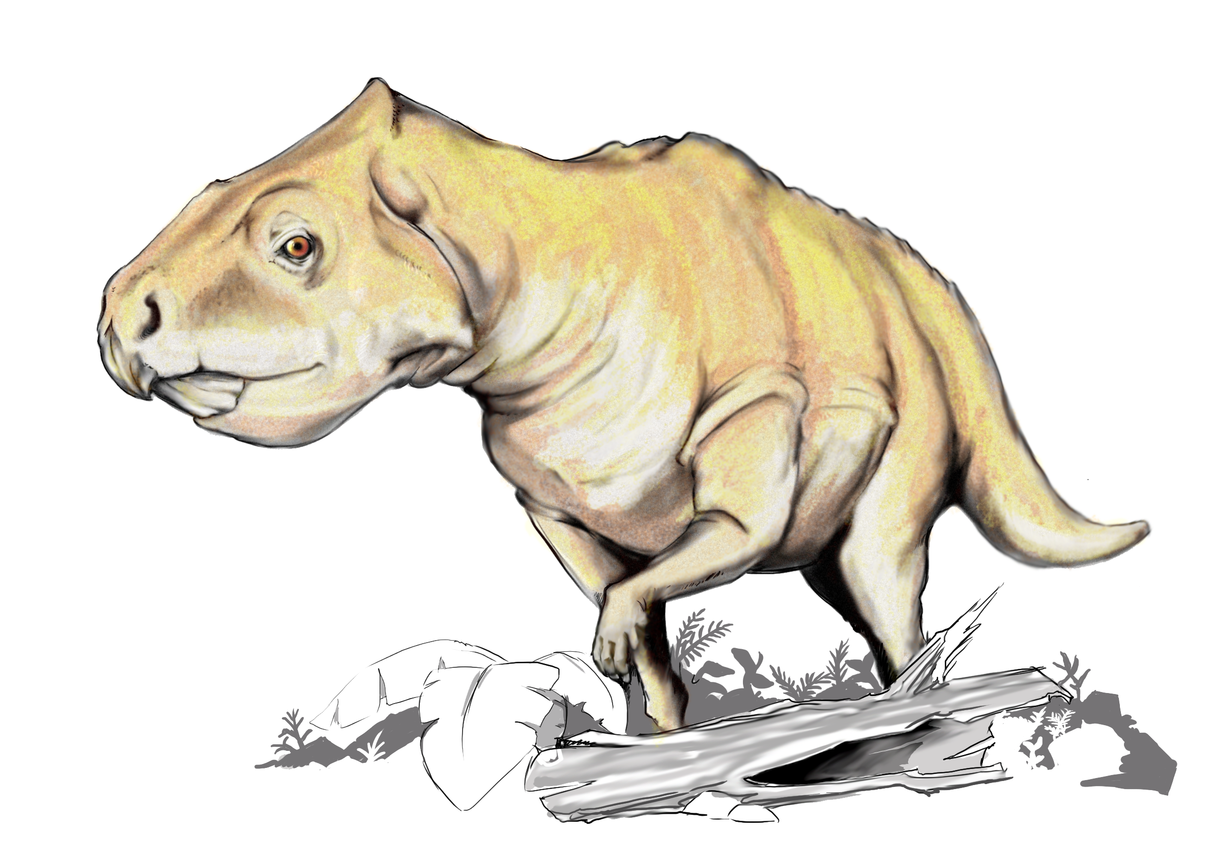 ilustration of a Prenoceratops pieganensis.